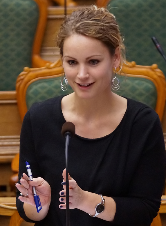 Pernille Skipper - Danish politician and MP from Red-Green Alliance during meeting in The Danish Parliament "Folketinget", december 2012